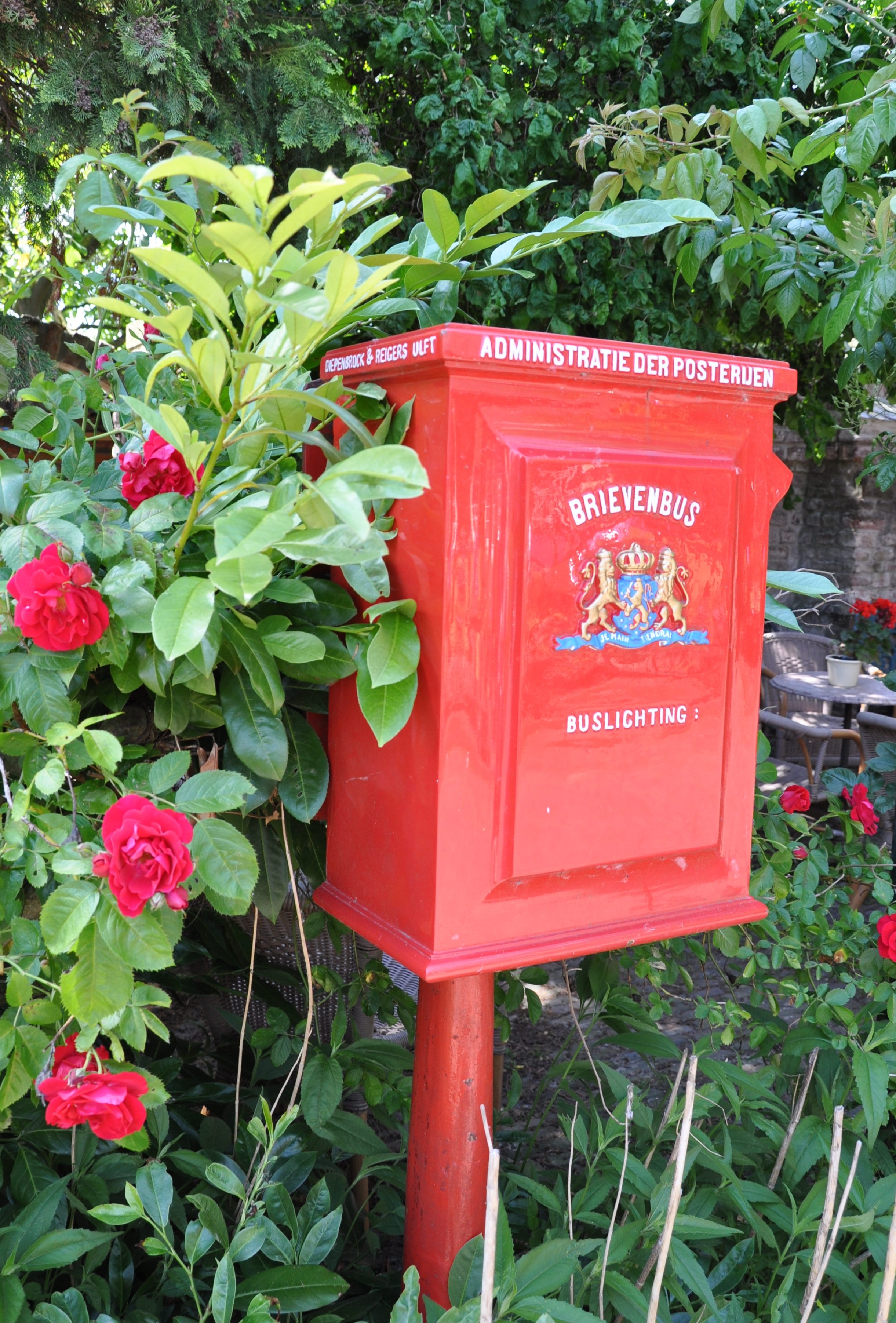 mailbox